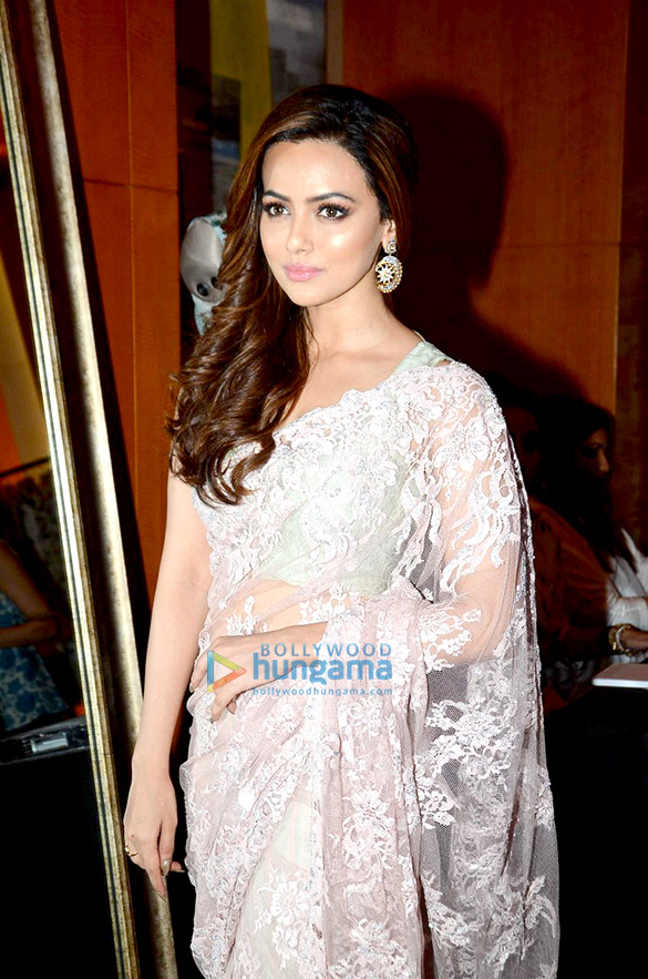 Khan at Payal Singhal & Shaheen Abbas’ fashion preview